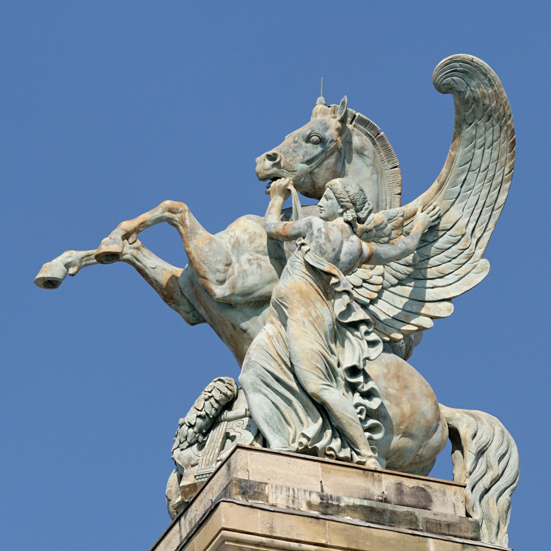 Renown holding back Pegasus by Eugène Lequesne (1815–1887). Bronze, southwest corner of the stage flytower roof of the Palais Garnier, Paris. Plaster drafts are exhibited in the Musée d'Orsay.